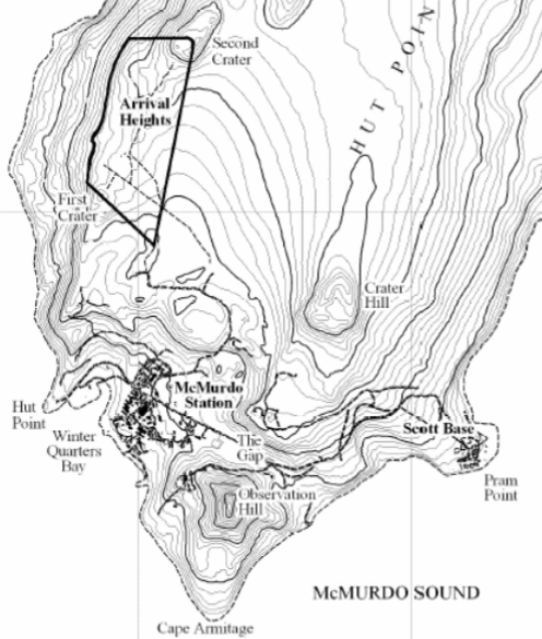 Map showing the Arrival Heights ASAP boundary.